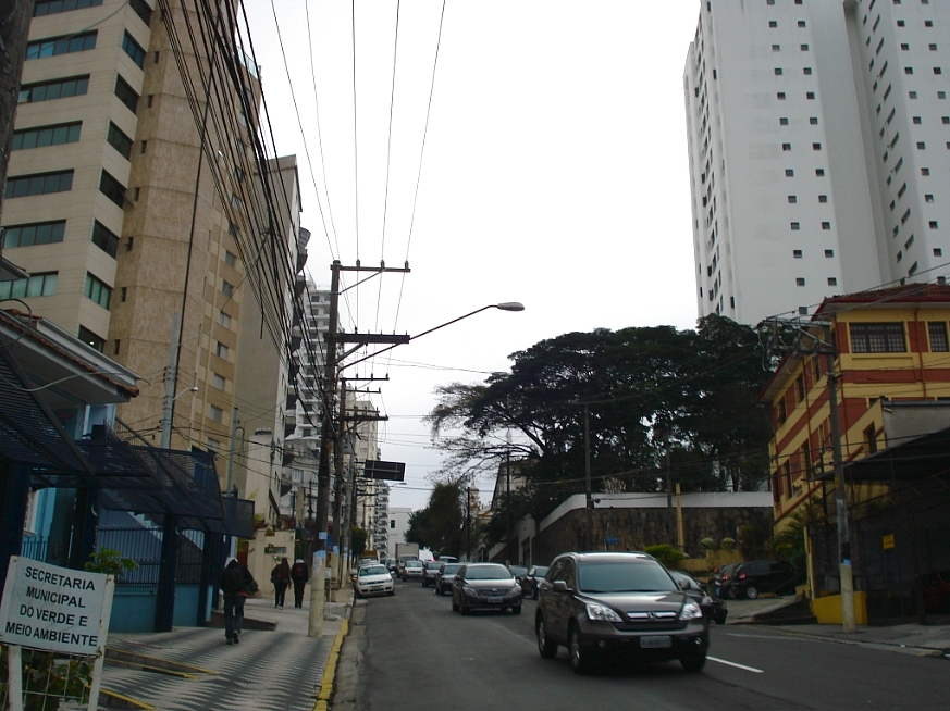 rua Voluntários da Pátria (street) descent, Sao Paulo, Brazil.